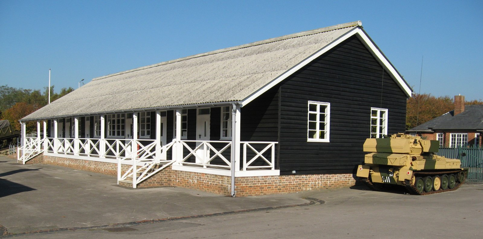 The Boyce Building at Aldershot Military Museum.